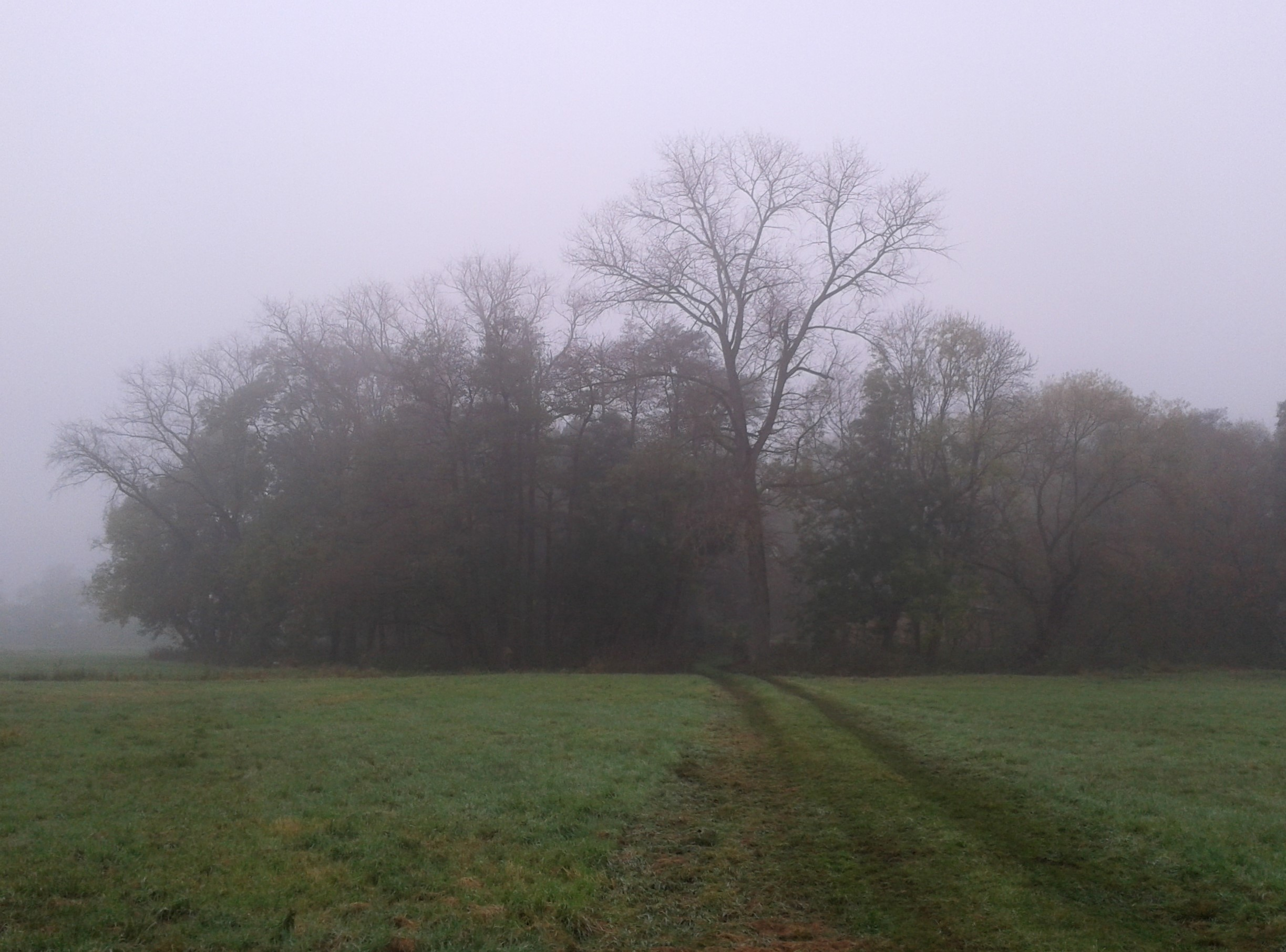 Wharf of former "Kapelle"-Farm in Niederblockland on a foggy autumn day, Breme, Germany